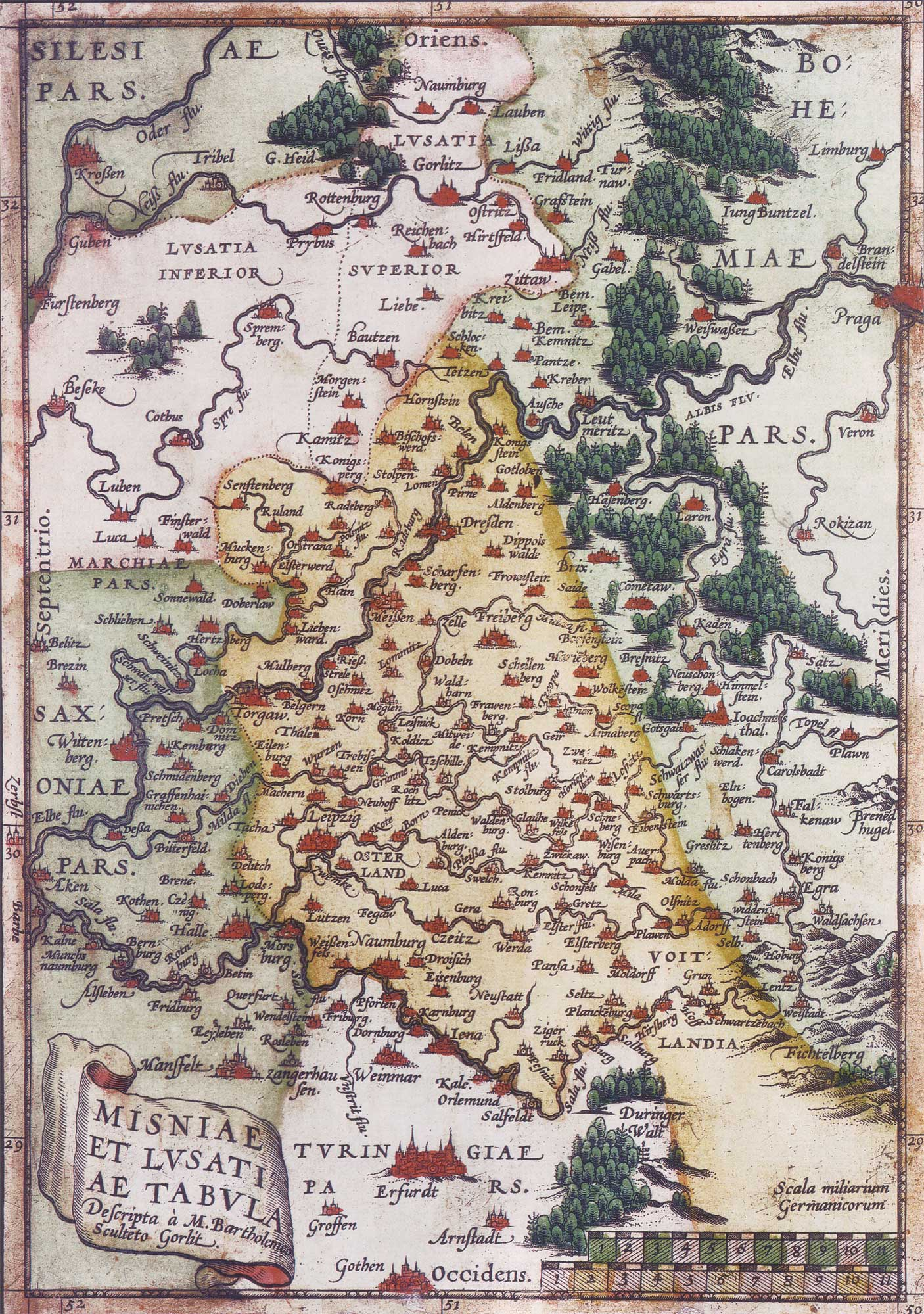 Map of Meissen an Lusatia around 1600; North to the left